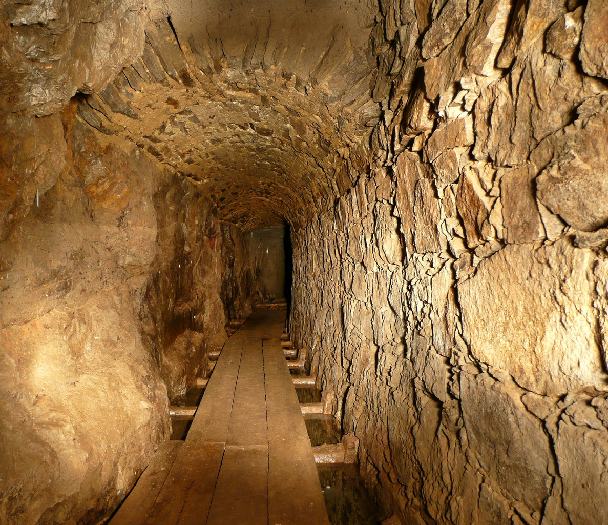 This image shows the St.-Michaelis-mine, a former silver mine, in Clausnitz in the Ore Mountains.